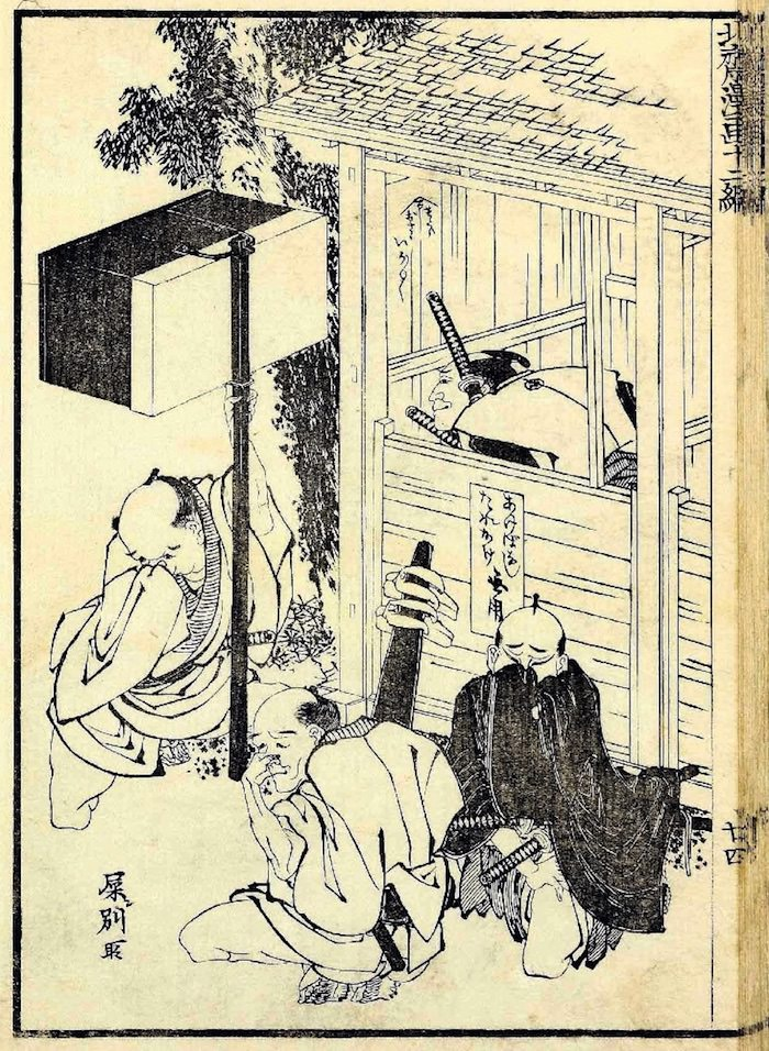 A page from Hokusai Manga